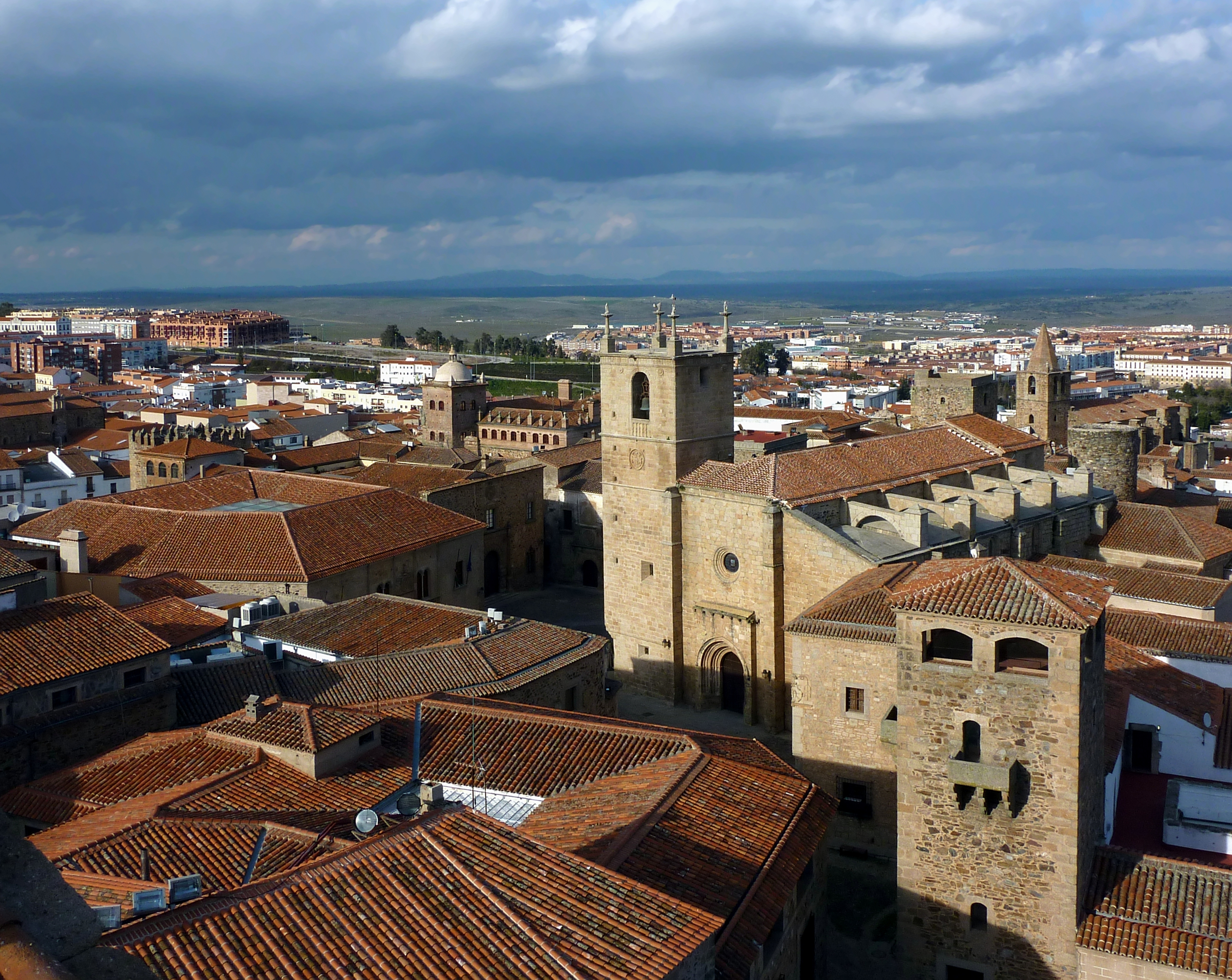 View of the old town of Cáceres (Spain) and its surroundings Panasonic Lumix DMC-TZ7